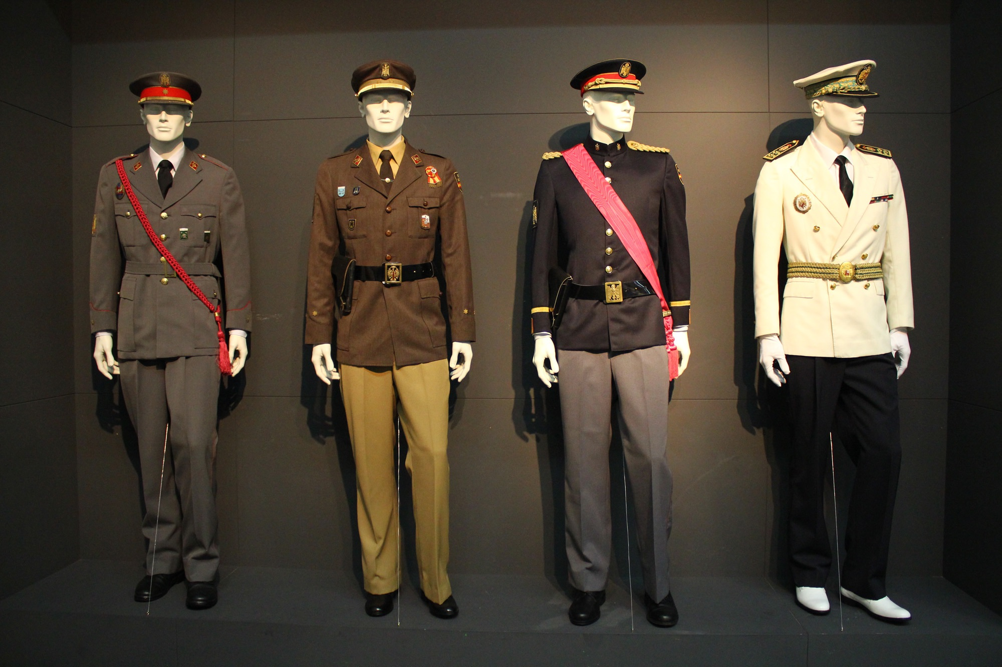 Exhibition of the National Corp of Police in the Maritime Station of Vigo